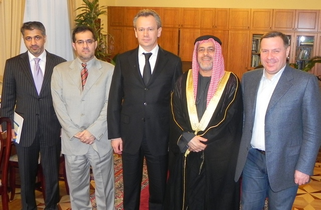 Sheikh visiting